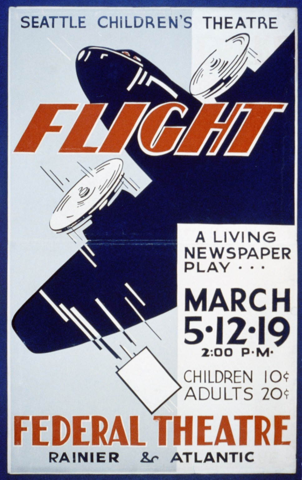 Title: Seattle Children's Theatre [presents] "Flight" a living newspaper play Abstract: Poster for Federal Theatre Project presentation of "Flight" at the Federal Theatre, Rainier & Atlantic, Seattle, Washington, showing an airplane. Physical description: 1 print (poster) : silkscreen, color. Notes: Work Projects Administration Poster Collection (Library of Congress).